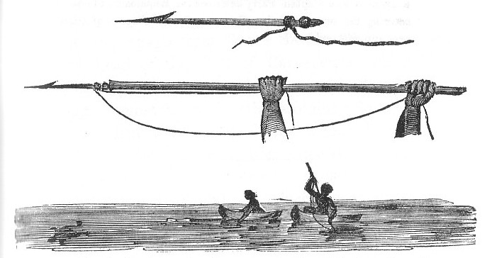 jpg copy of image from free of copyright copy of King's journals from 1812